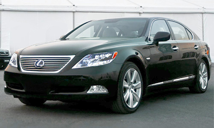 Lexus LS600hL with RX400h * Double "h" * Front 3/4 Headlights from :LS_600h_L_Verdigris_Mica.jpg